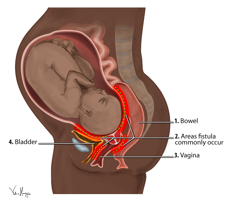 Diagram illustrates the areas where obstetric fistula commonly occur. Labels: Bowel Areas fistula commonly occur Vagina Bladder